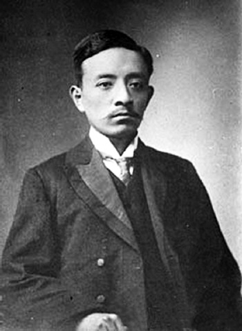 Song Jiaoren